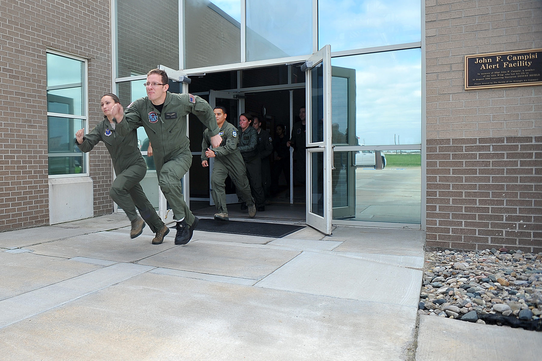 Team Members from the 625th Strategic Operations Squadron runs out of John F. Campisi alert dining facility during a simulated alert call on Offutt Air Force Base, Neb., Oct 3. The 625th STOS offers various airborne capabilities which enhance the strategic deterrence of the U.S. nuclear triad. (U.S. Air Force Photo by Charles Haymond)